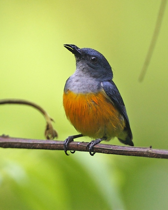 Orange-bellied Flowerpecker Dicaeum trigonostigma Dicaeum trigonostigma trigonostigma - Male Central Catchment area, Singapore 30th. March 2008 690V2995